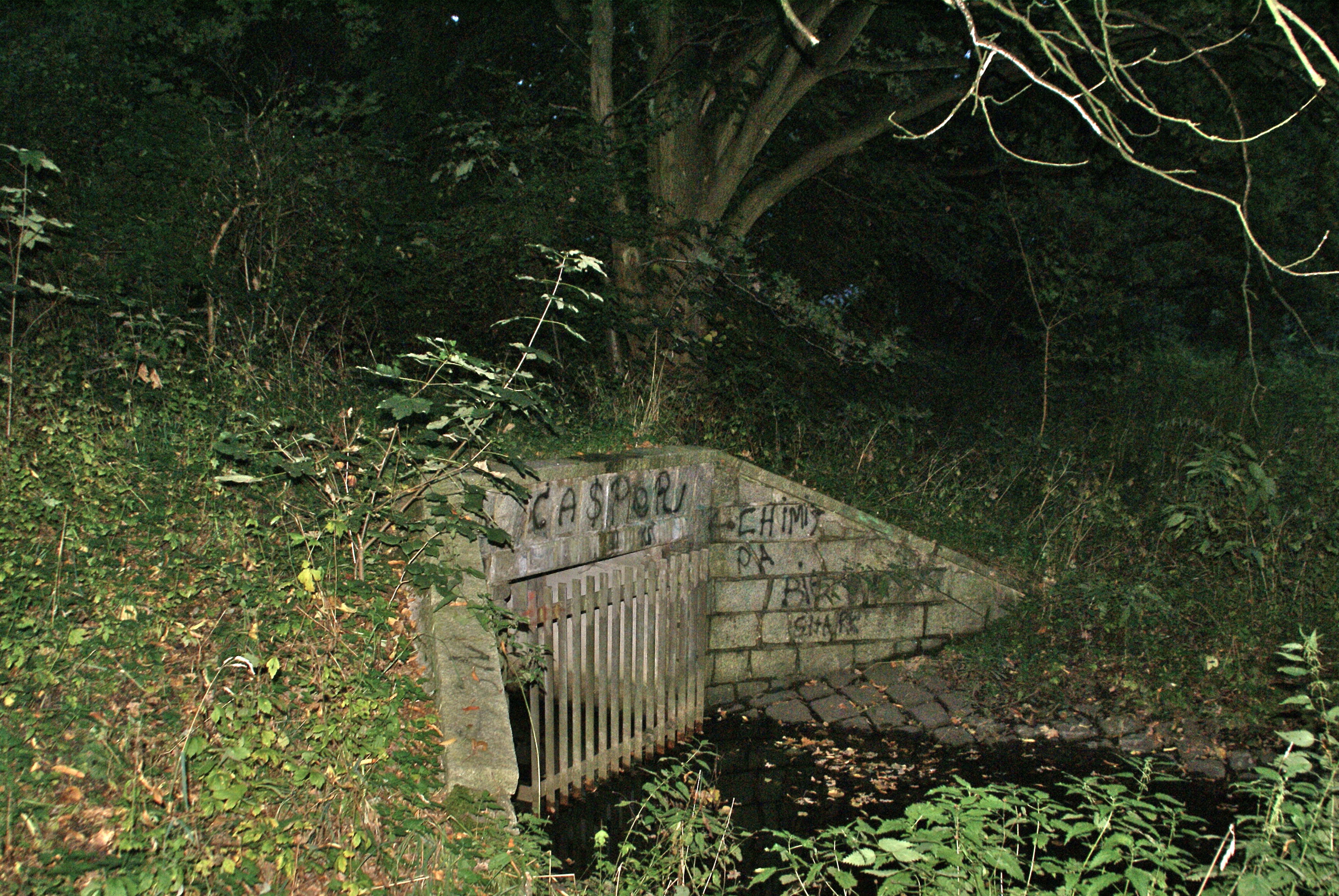 Volksdorf (Germany): The Saselbek springs from the Allhrondiek Pond